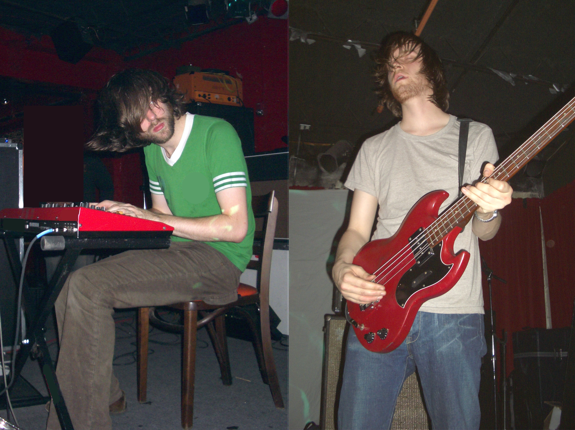 Evan Mast and Mike Stroud of Ratatat performing at the Grog Shop in Cleveland, Ohio in 2004